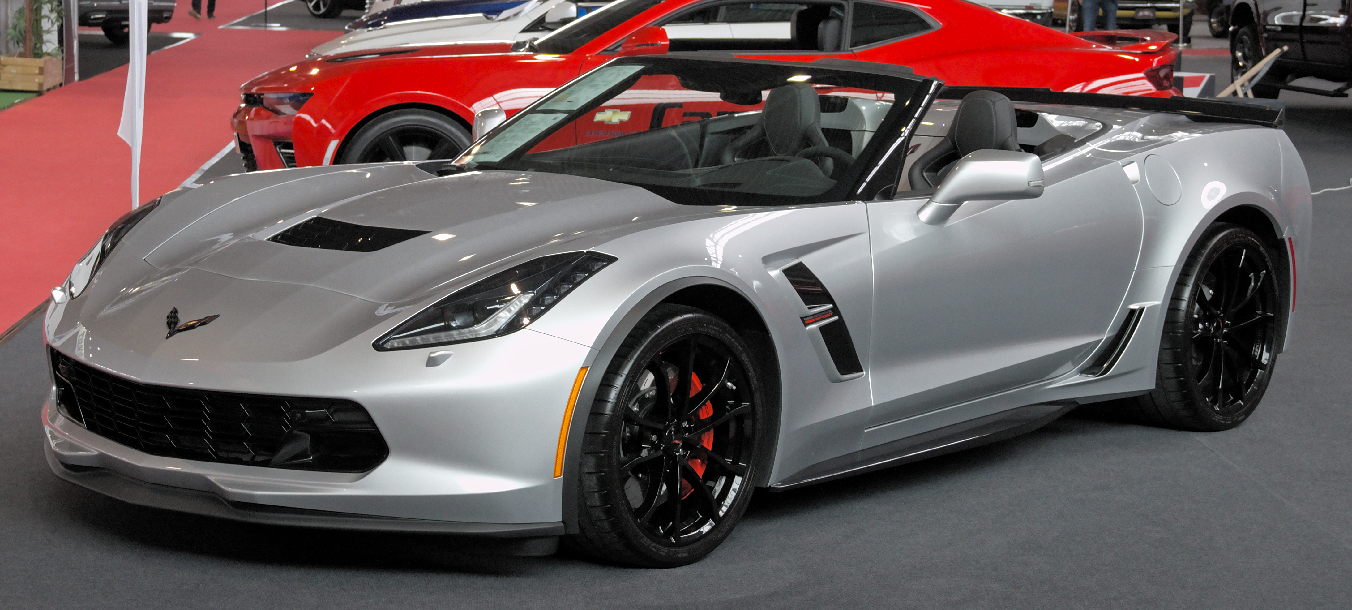 Chevrolet_Corvette_C7_Grand_Sport at Retro Classics 2020